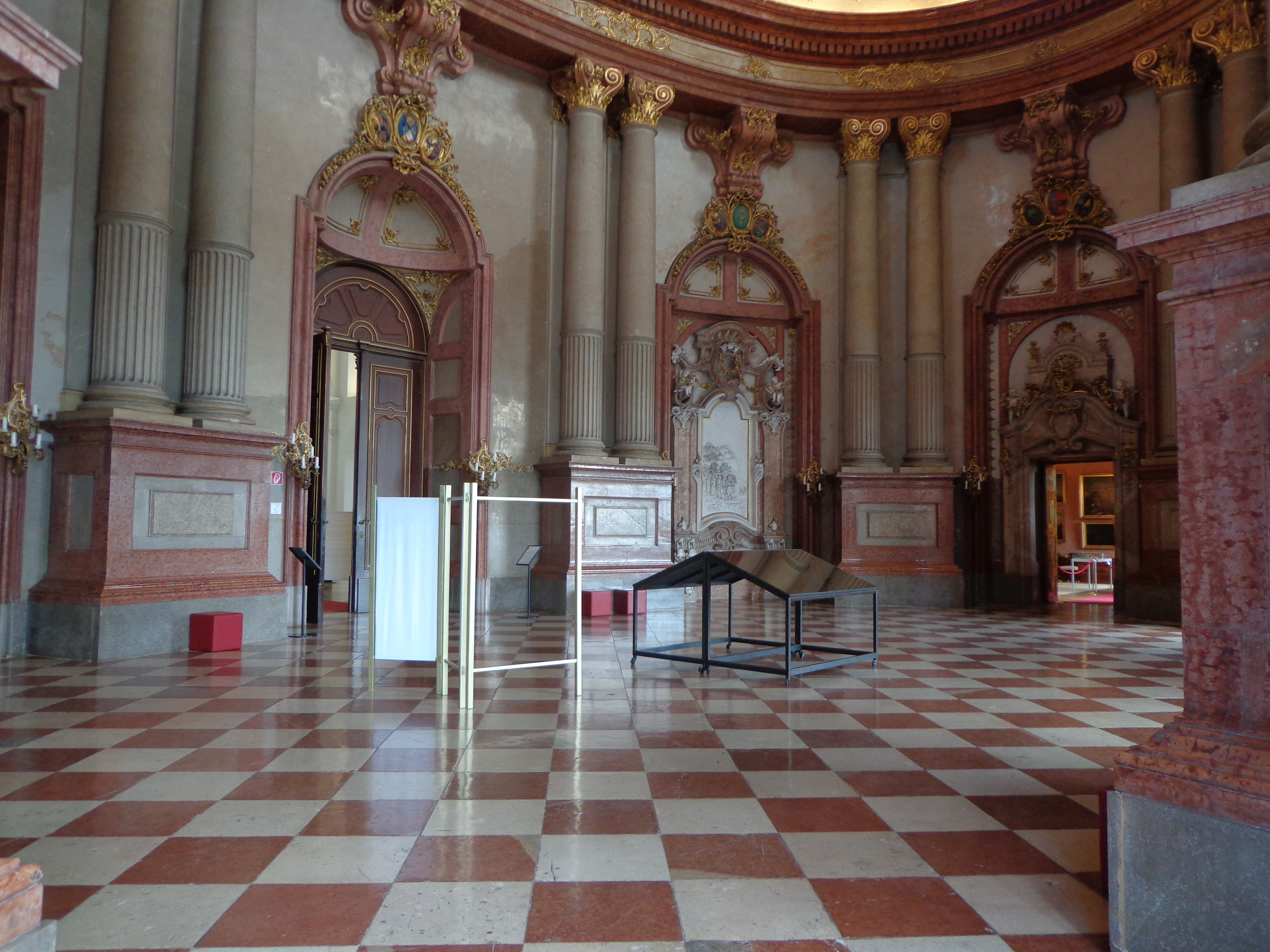 Klosterneuburg Monastery - Marble Hall of the unfinished imperial wing.